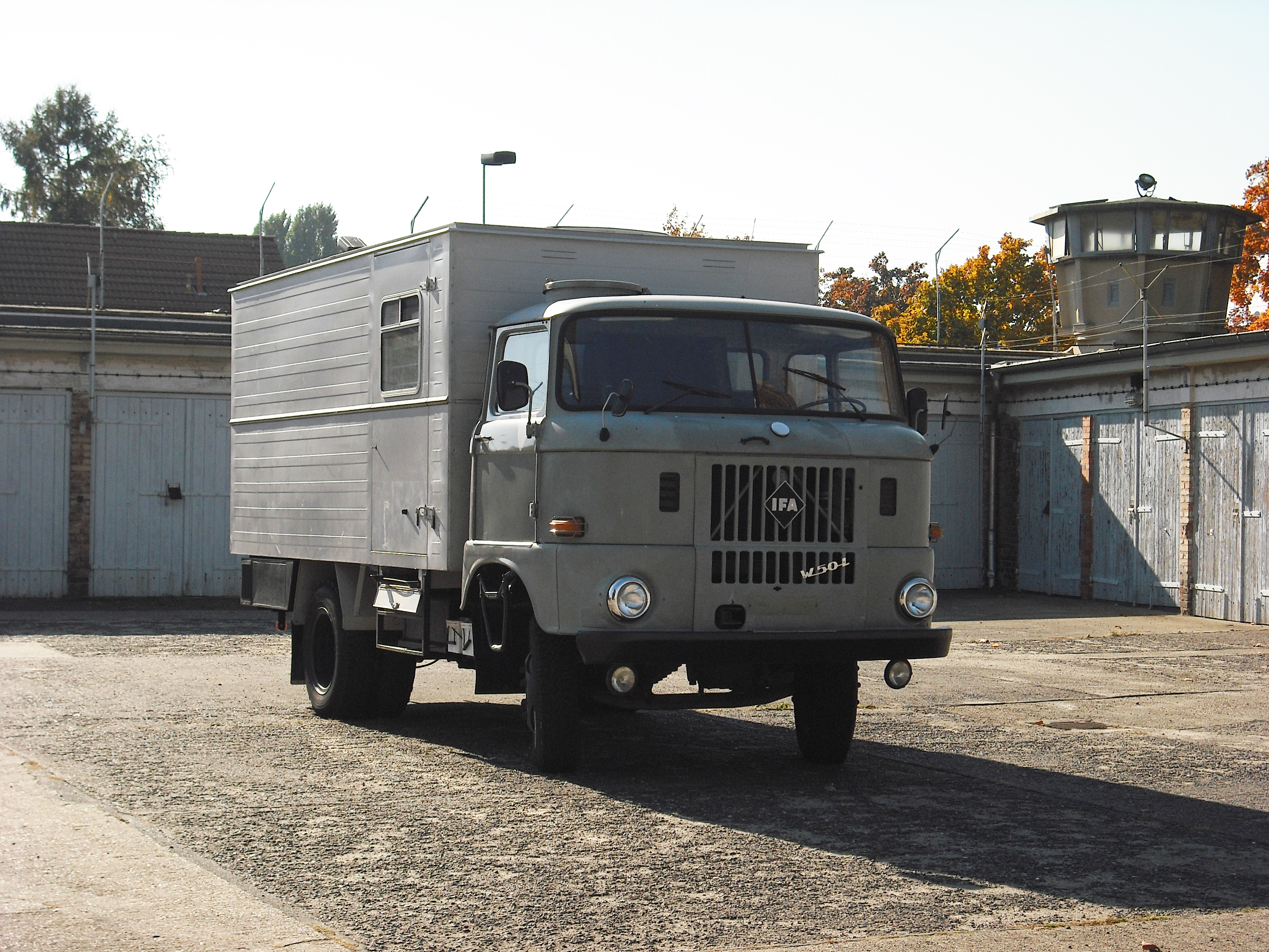 Berlin-Hohenschönhausen Memorial - IFA W50